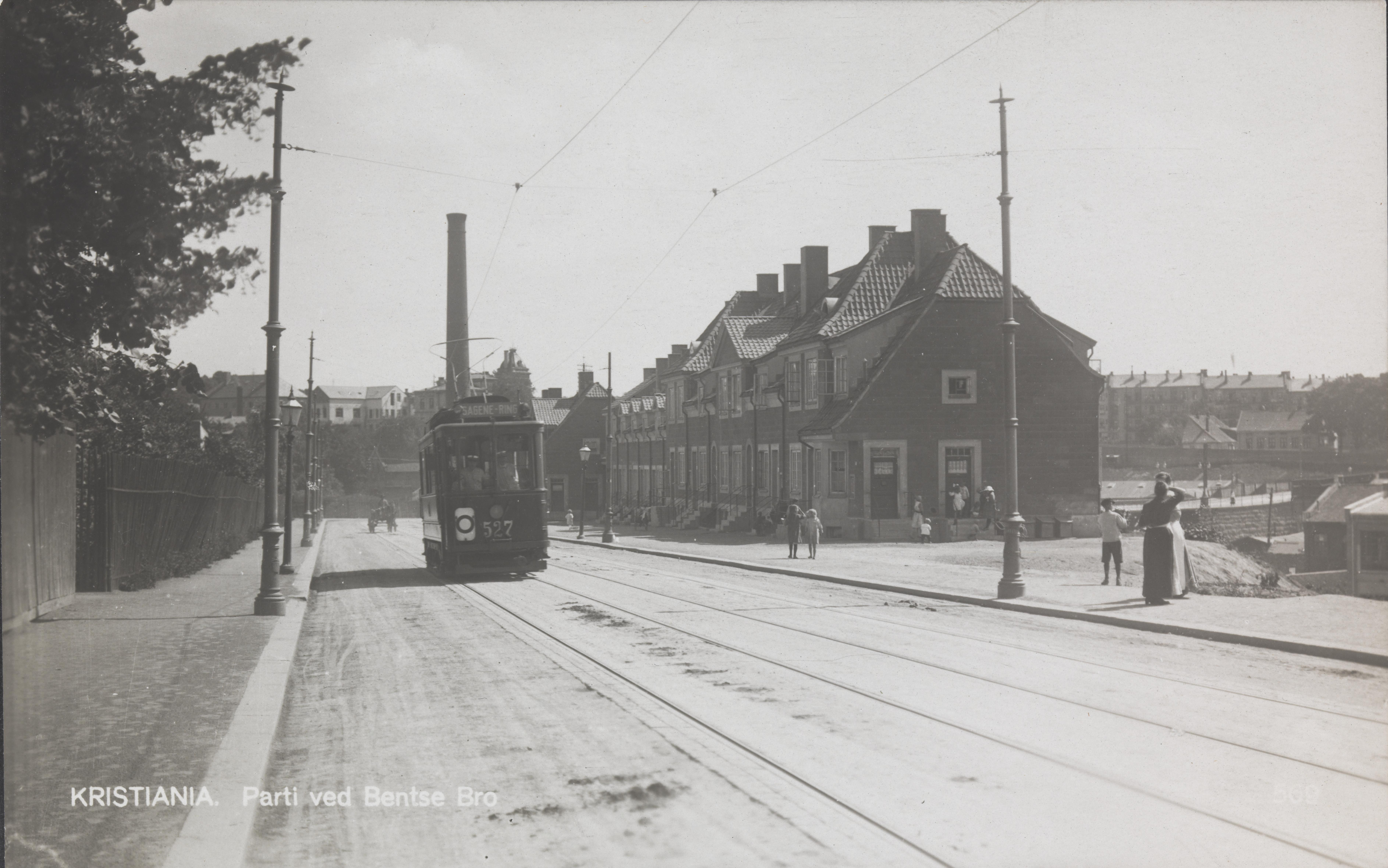 Tram in Arendalsgata, Oslo, Norway. Apartmenthouses in Arendalsgata 5-45. Built as workers' houses in 1914, architects Morgenstierne & Eide.